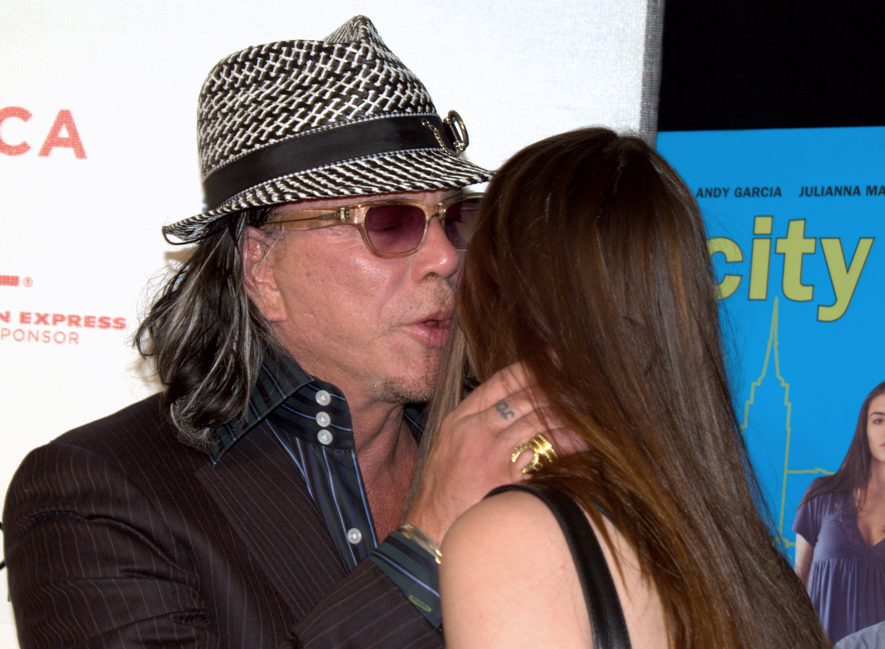 Mickey Rourke greeting Dominik García-Lorido, daughter of Andy Garcia, at the 2009 Tribeca Film Festival for the premiere of City Island. Photographers blog post about the event for this photo.